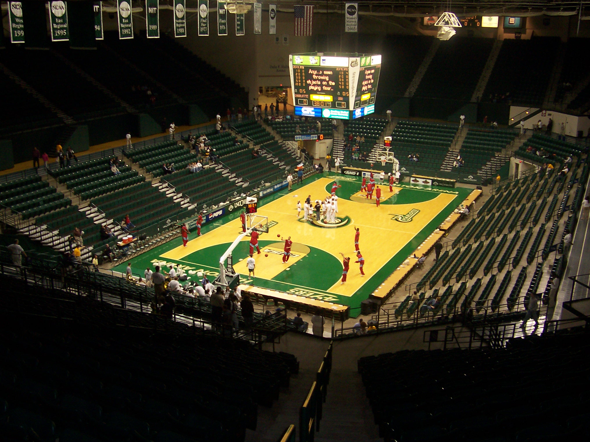 Halton Arena has been the on-campus facility for basketball and volleyball since 1996.